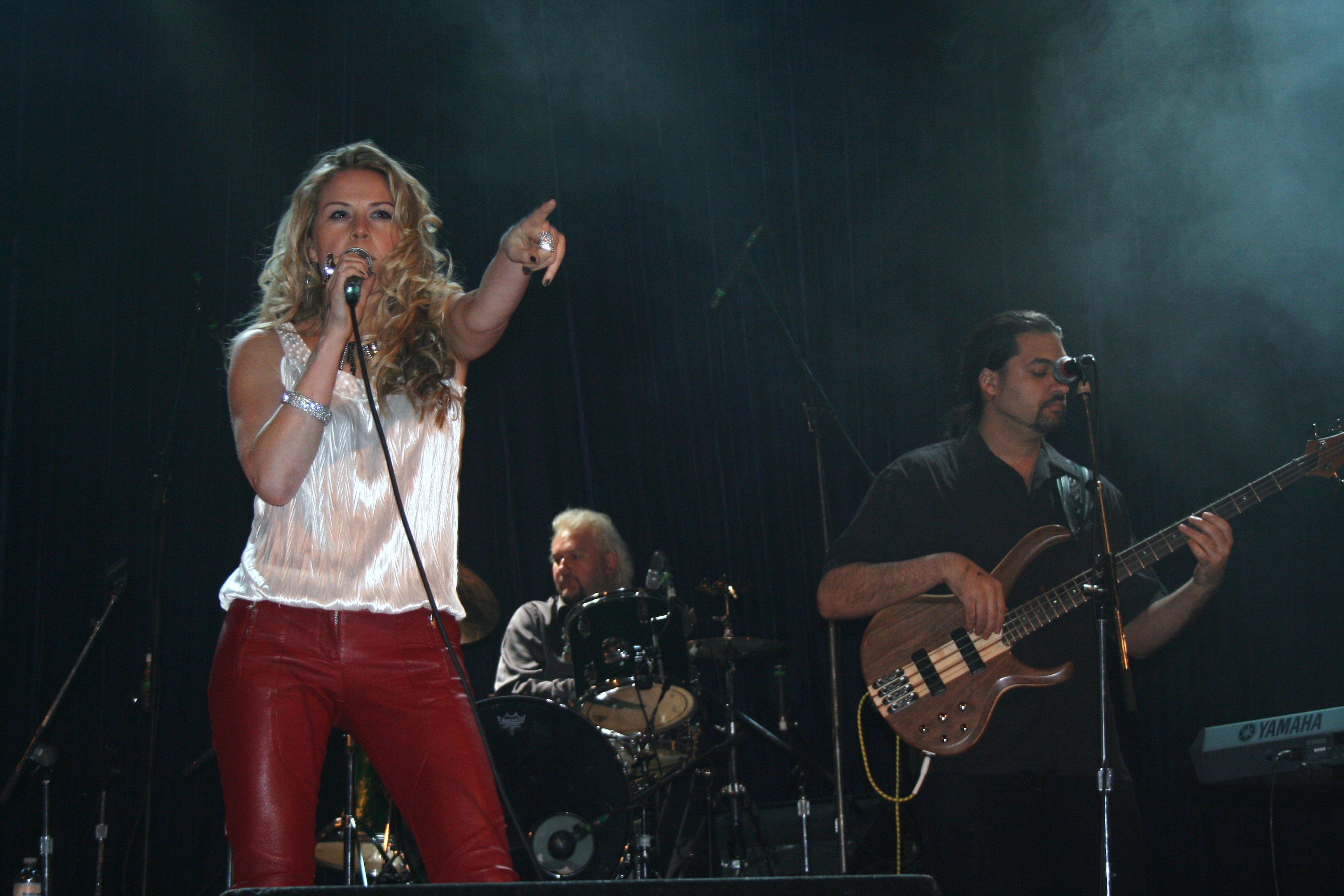 With Anita Prime, All Star Rock Tour, Opera House, Toronto, 2011